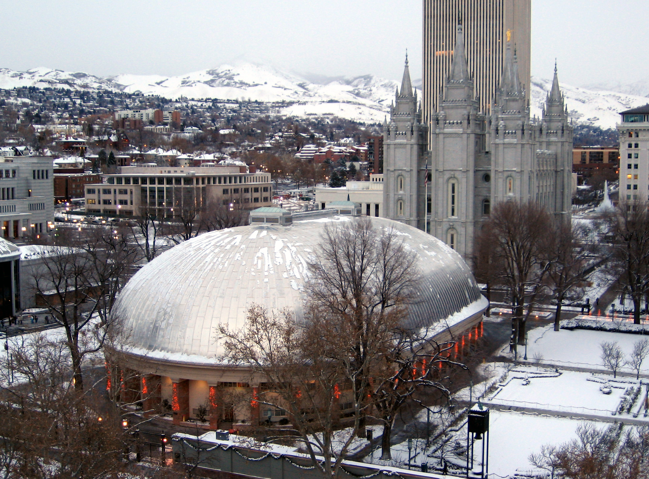 Tabernacle on Temple Square in Salt Lake City, Utah, U.S.A. at Christmas time (The Church of Jesus Christ of Latter-day Saints).